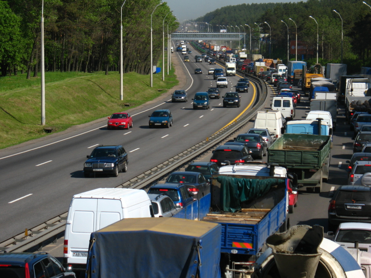 M9 Minsk Beltway (MKAD).